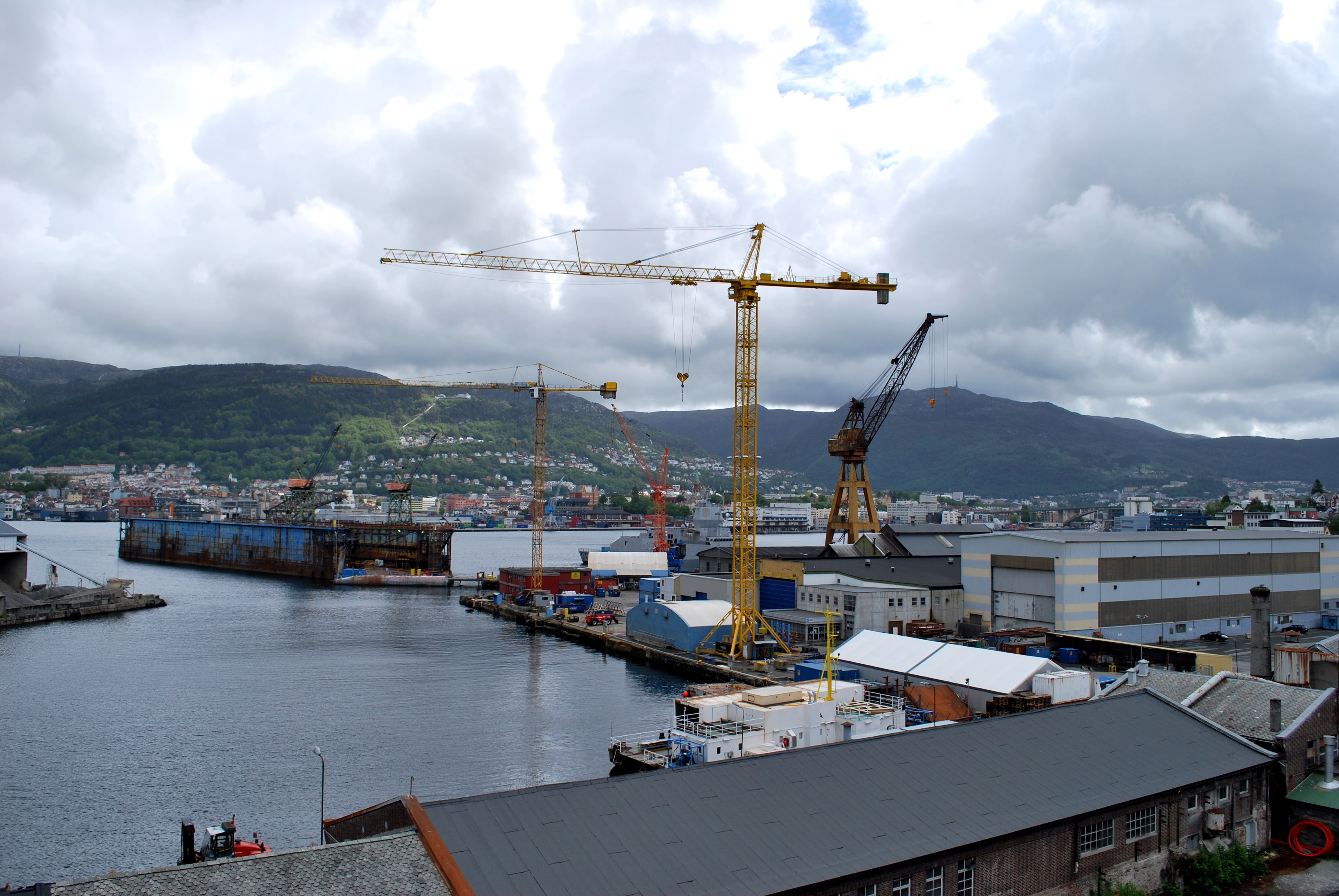 Shipyard Bergen Group Laksevåg, formerly Laksevåg Verft, at Lakesvåg in Bergen.